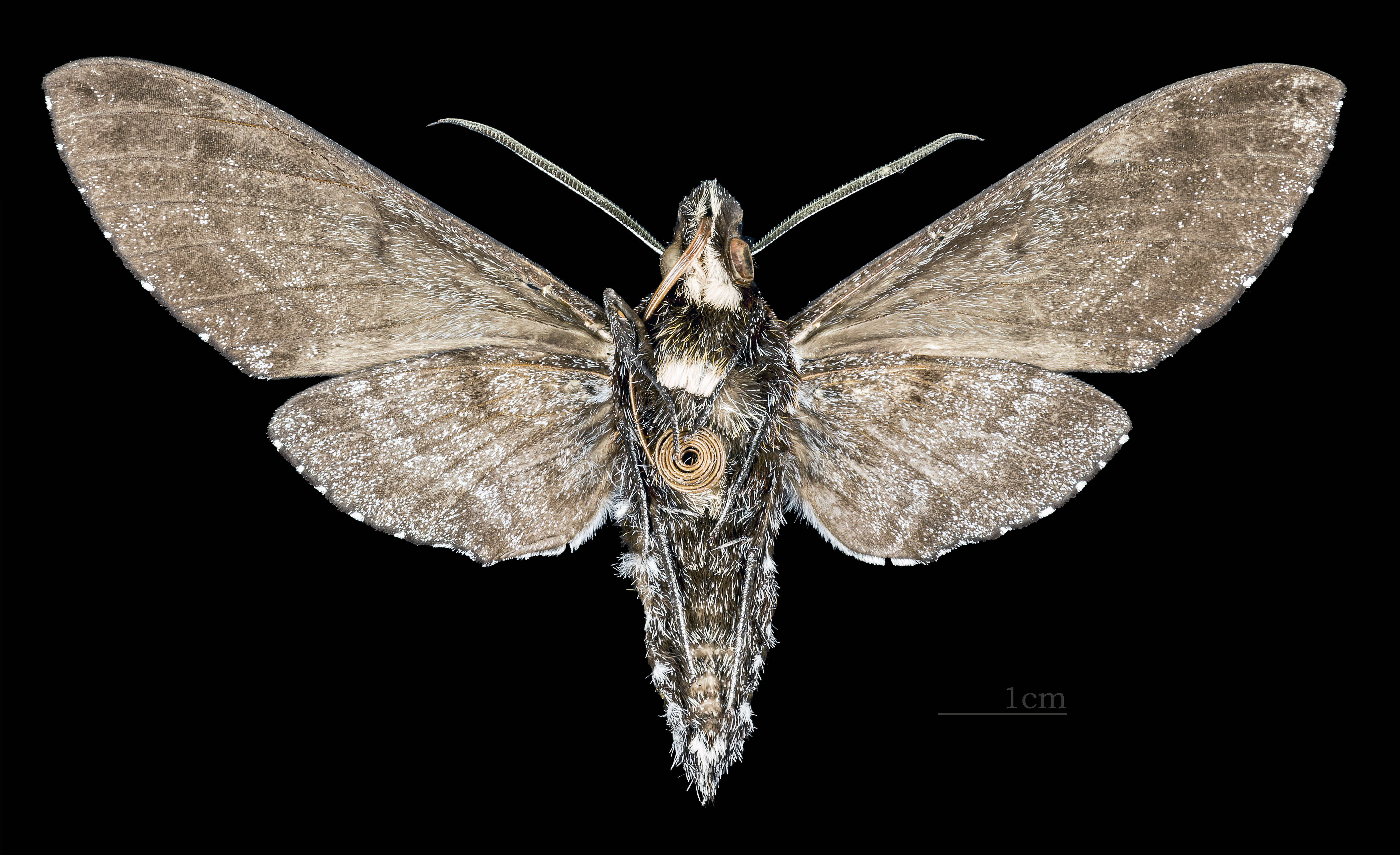 Euryglottis albostigmata - △ Ventral side Collection of the Mathematician Laurent Schwartz